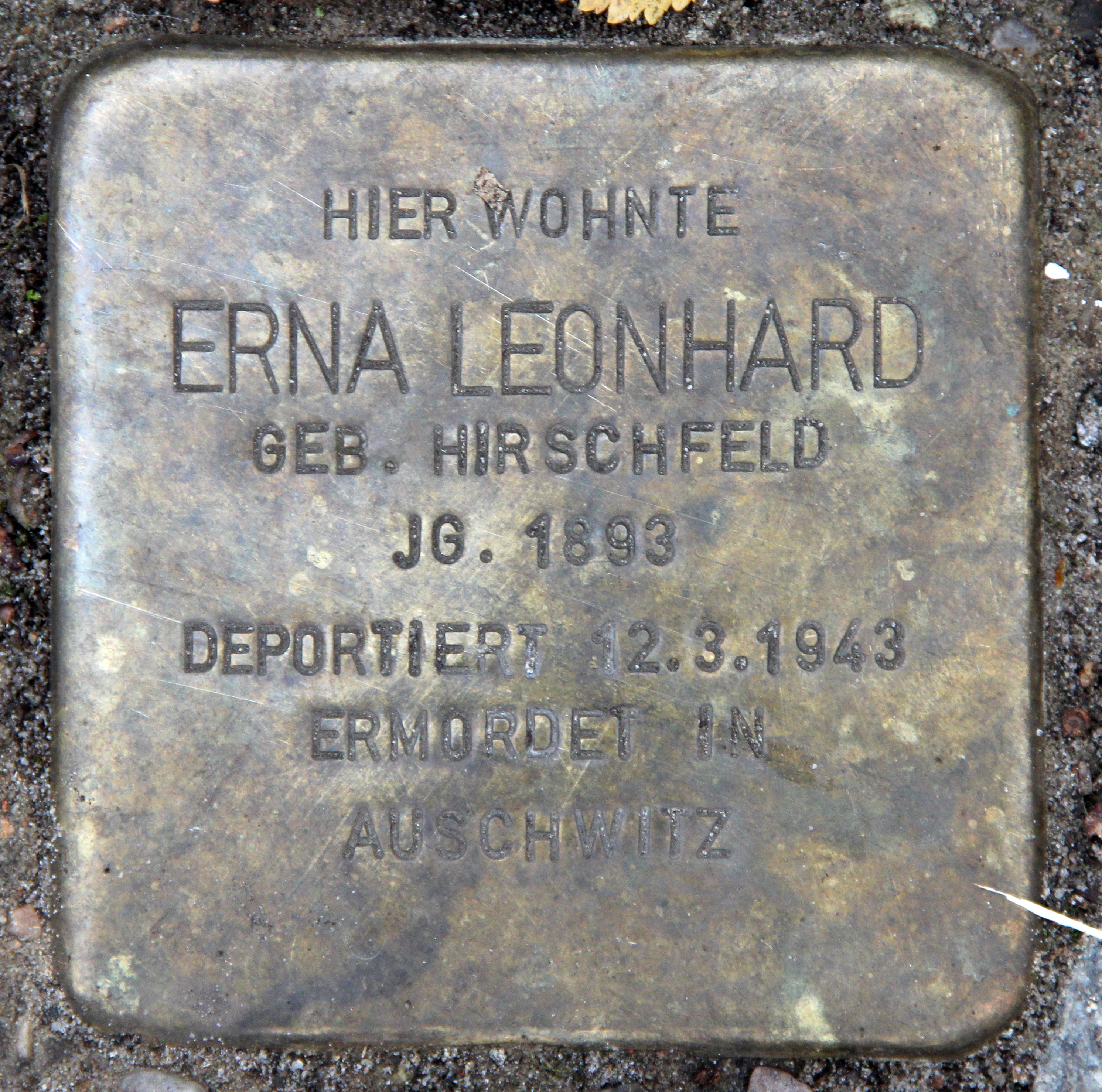 "Stolperstein" (stumbling block), Erna Leonhard, Alte Allee 17, Berlin-Westend, Germany